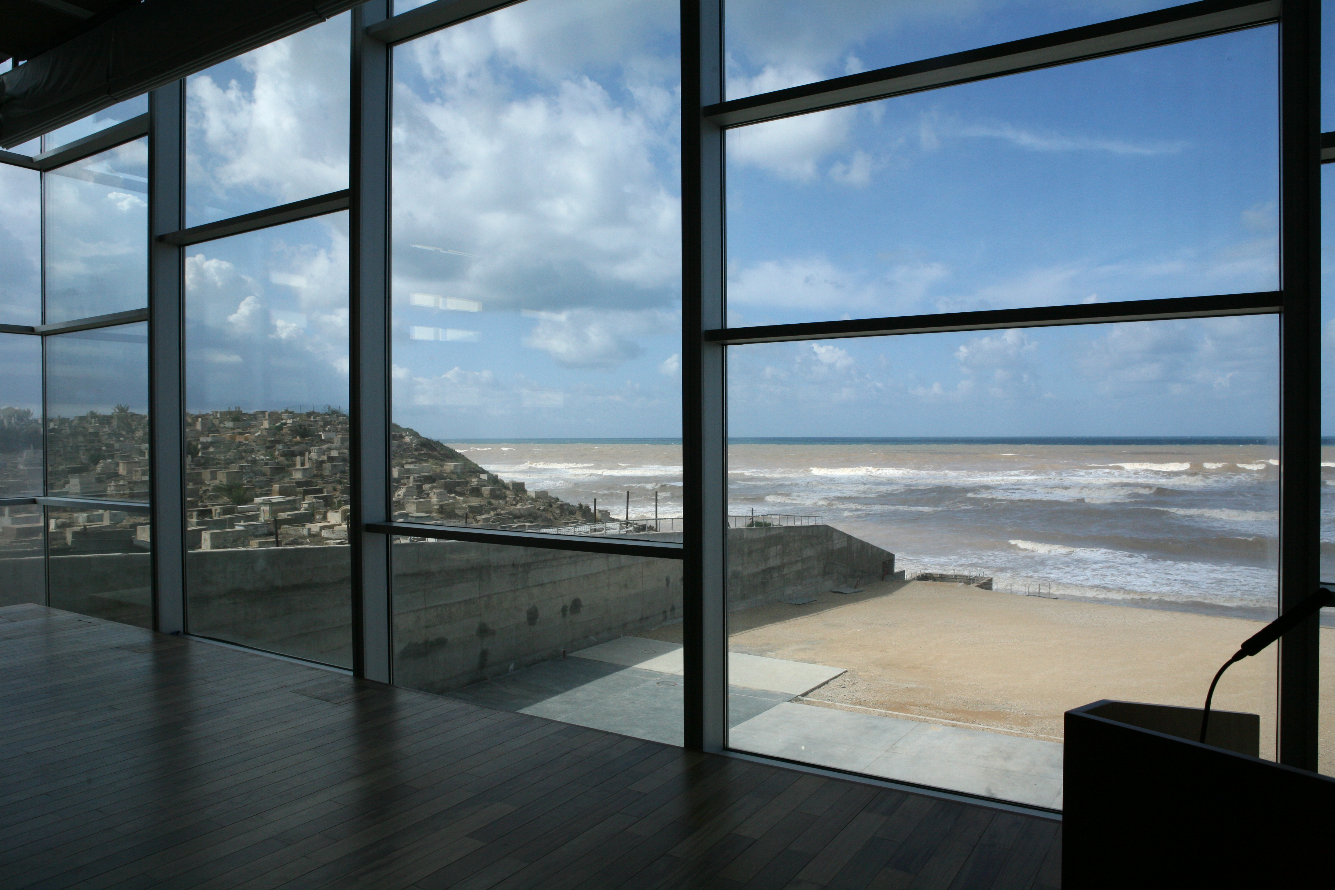 The view from the auditorium of the Peres Peace House